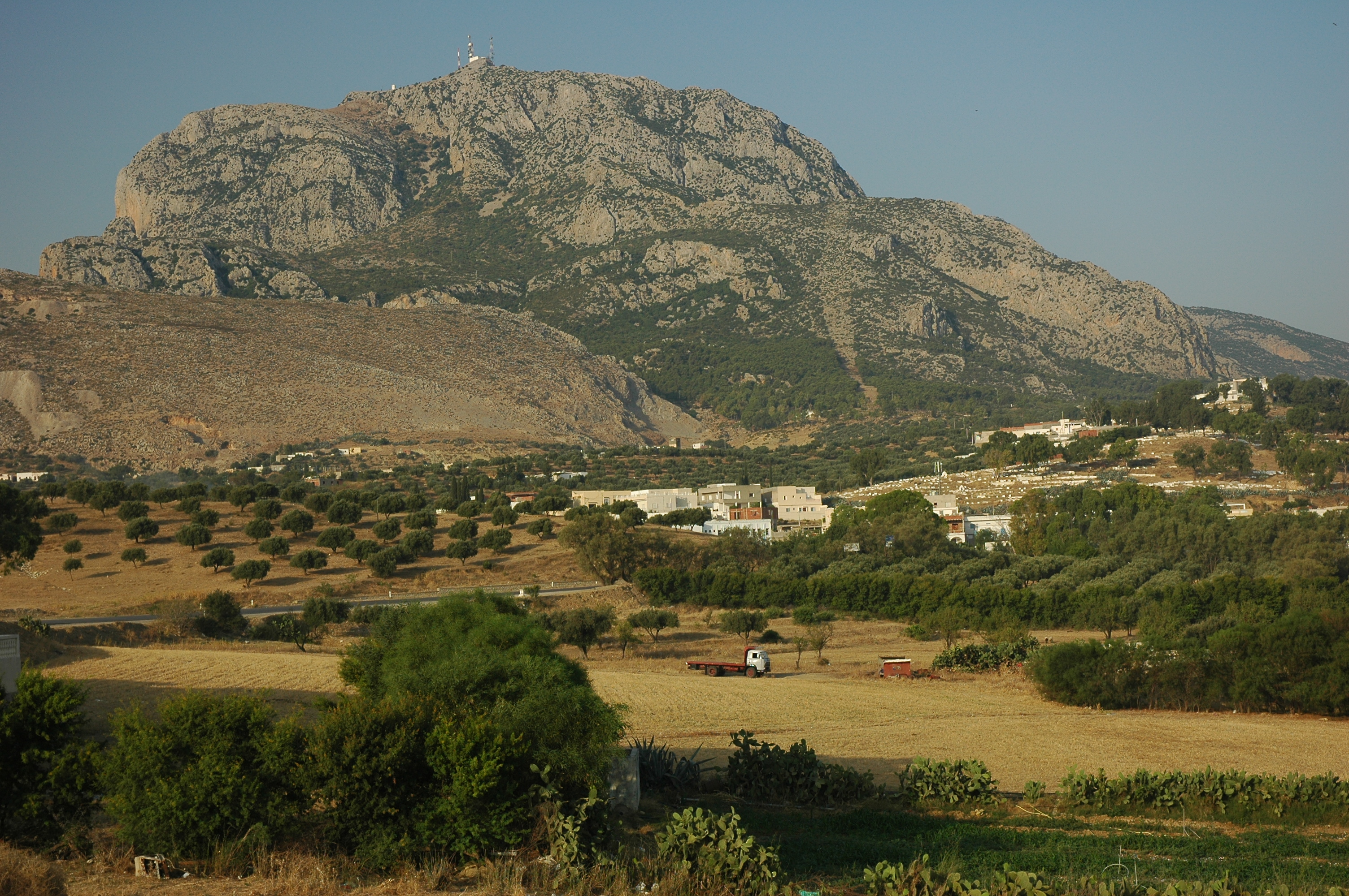 Zaghouan in Tunisia